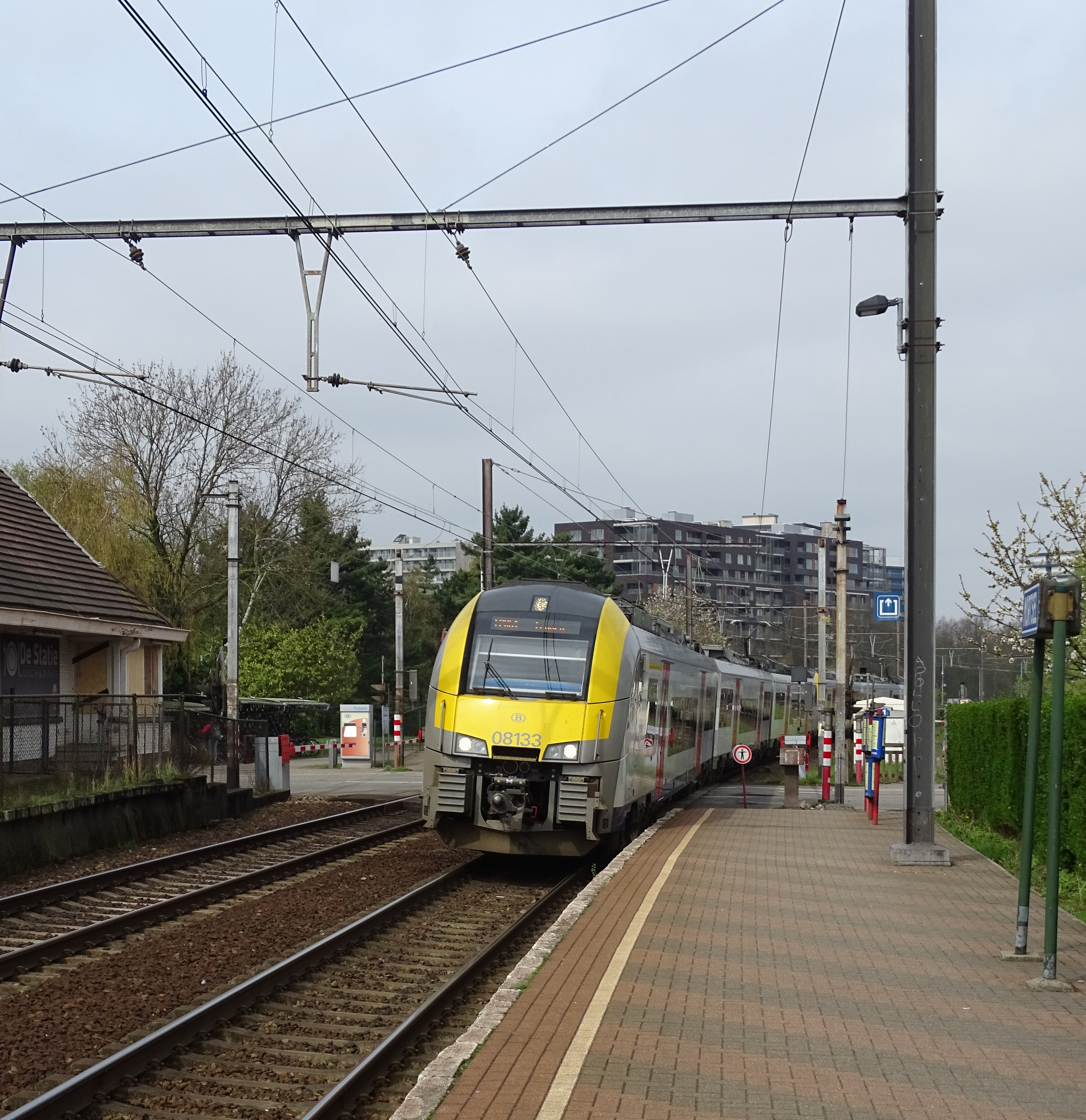 NMBS 08133 (type MS08 a Siemens type Desiro Main Line (Desiro ML) arriving at platform 2 in station Mortsel railway station.